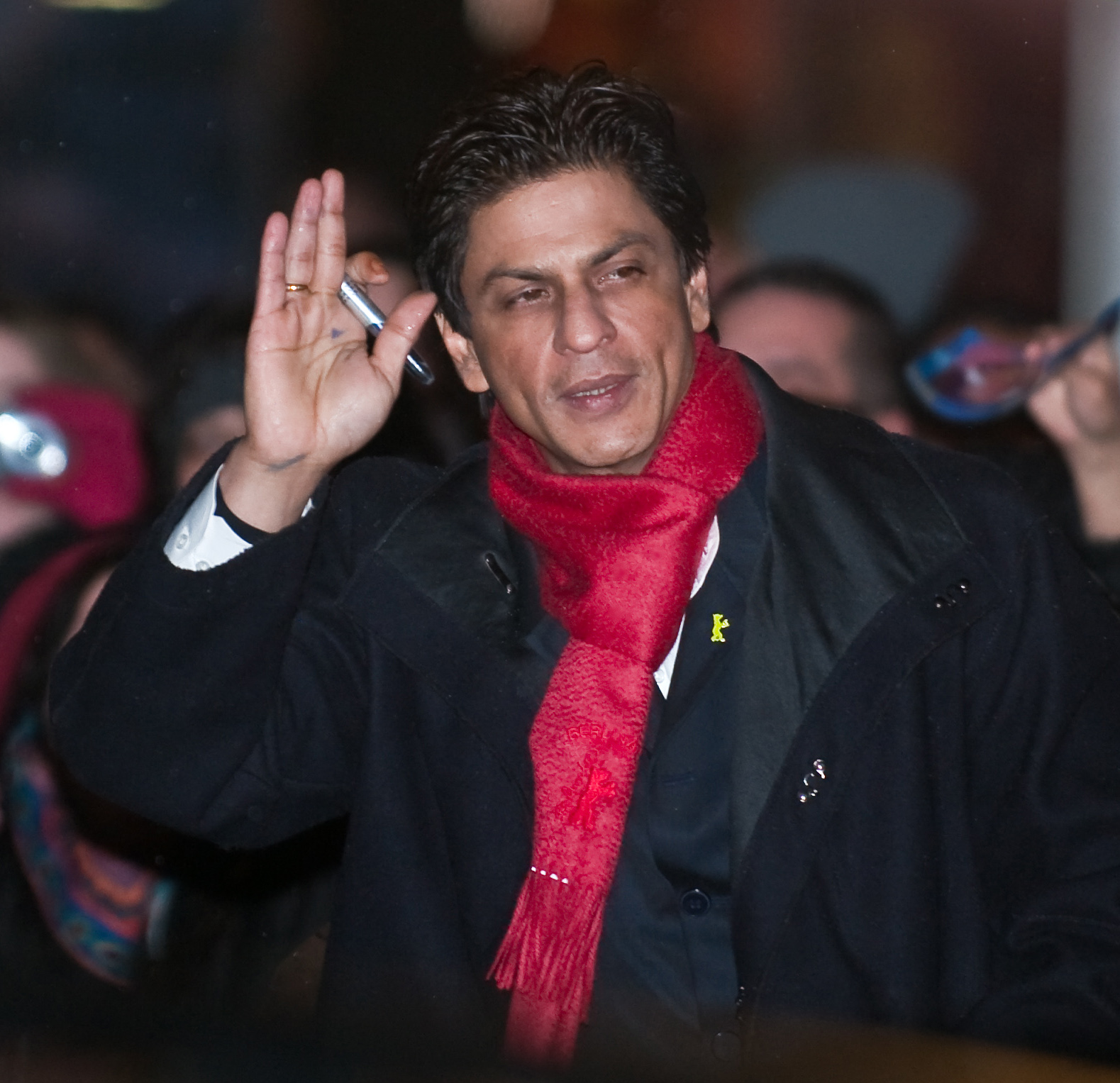 Indian actor Shah Rukh Khan leaving the press conference for the film "My name is Khan"